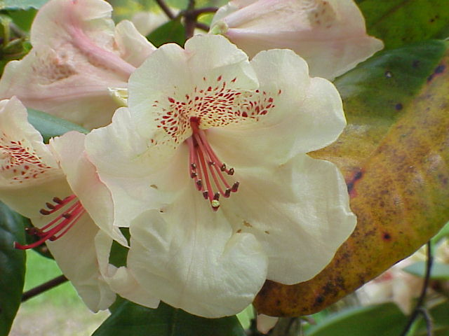 Species: 'Rhododendron campylocarpum hybrid Family: Ericaceae Image No. 4